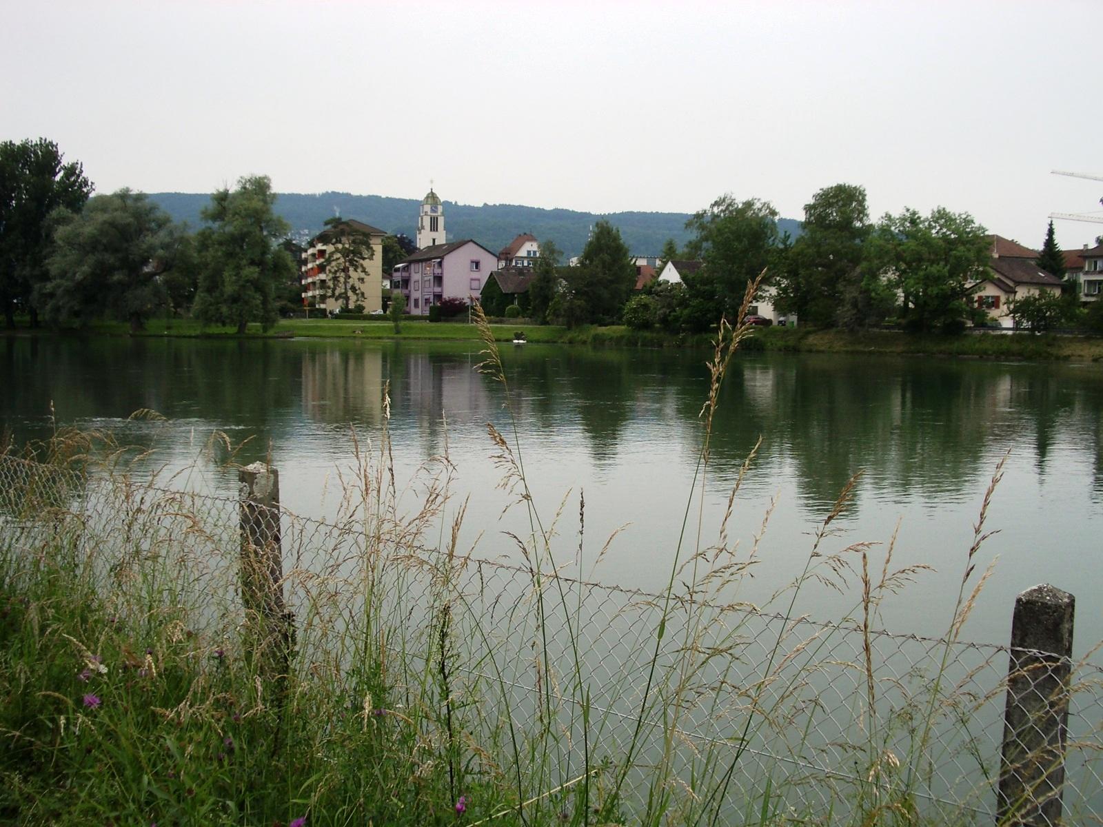 Dietikon ZH, Switzerland